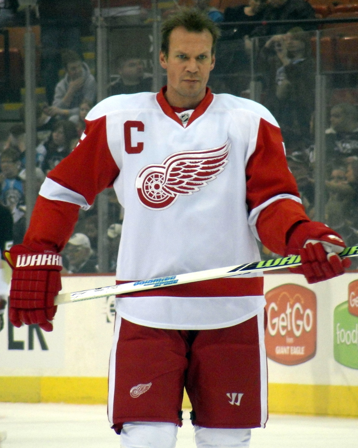 Nicklas Lidstrom warms up before a January 31, 2010 game between the Detroit Red Wings and Pittsburgh Penguins at Mellon Arena in Pittsburgh, PA.